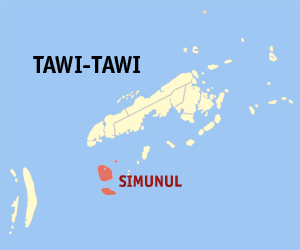 Map of the Tawi-Tawi showing the location of Simunul